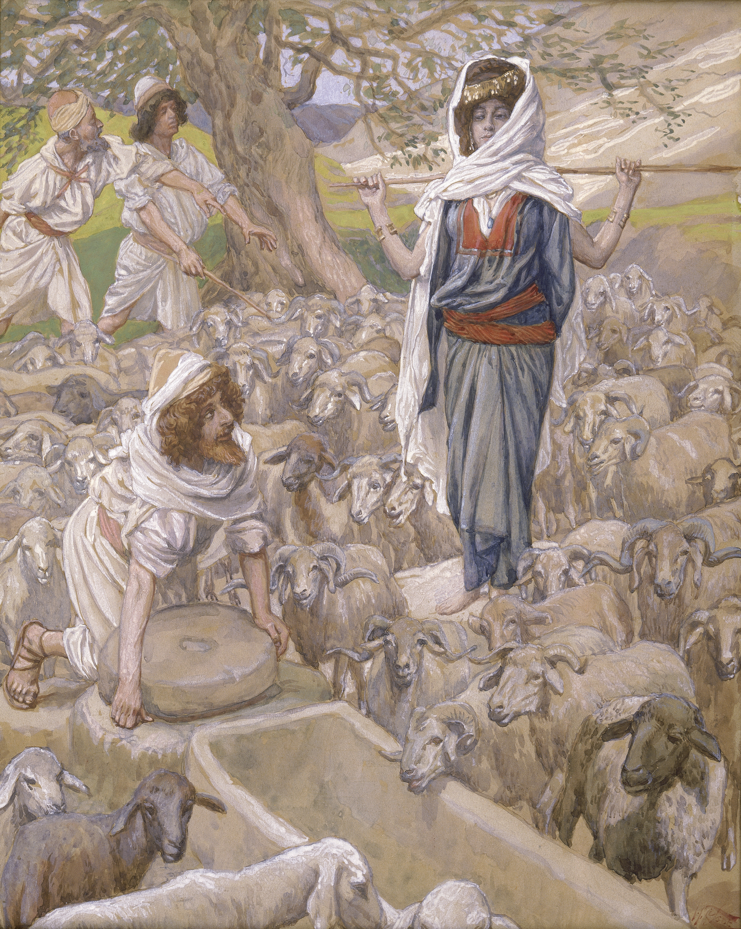 Jacob and Rachel at the Well, c. 1896-1902, by James Jacques Joseph Tissot (French, 1836-1902), gouache on board, 10 3/8 x 8 1/4 in. (26.4 x 21 cm), at the Jewish Museum, New York